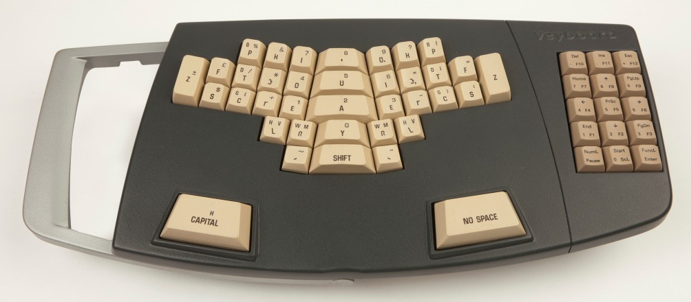 Veyboard, Photography by Ido Menco (